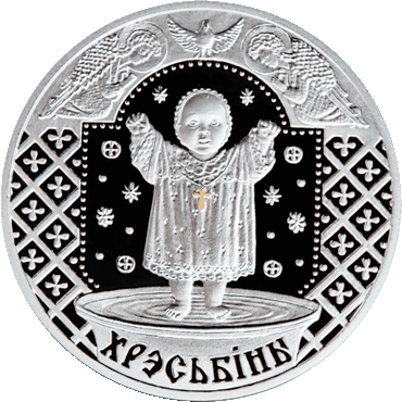 "Christening", Silver commemorative coins, denomination: 20 rubles